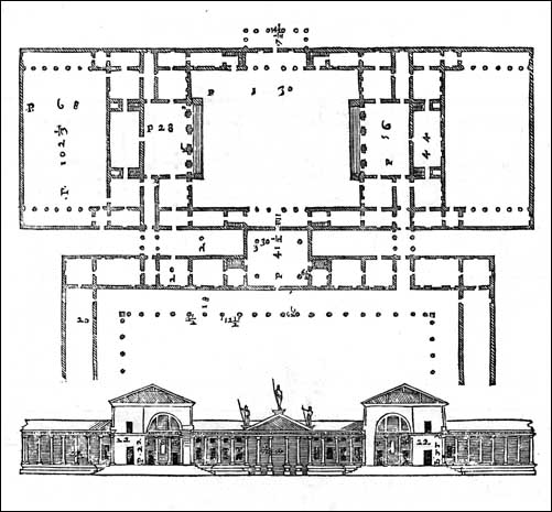 Villa Thiene in Quinto Vicentino, Province of Vicenza. Project by Andrea Palladio (only partially realized) from I quattro libri dell'architettura, 1570.